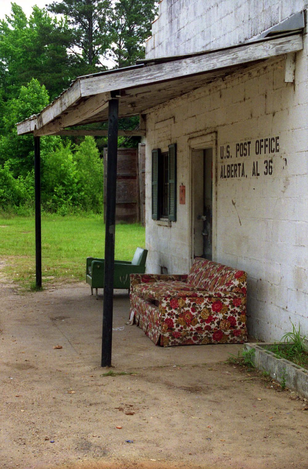 Abandoned post office in Alberta, Alabama